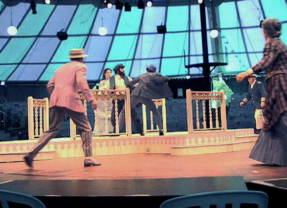 Sacramento Music Circus rehearsal 2001. Show Boat with Alan Young. Submited by photographer